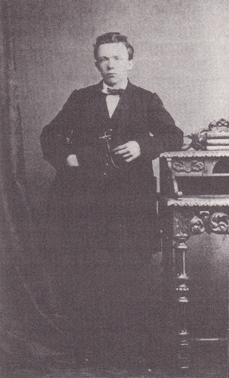 Lebrecht Steinmüller